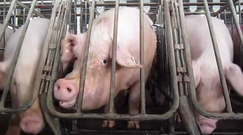 Smithfield Foods gestation crates, Smithfield Foods/Murphy Brown pig breeding facility, Waverly, Virginia, United States [1]